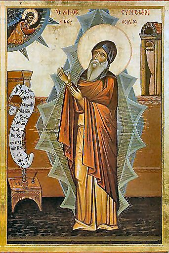 Symeon the New Theologian